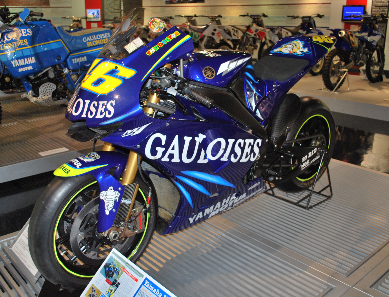 Yamaha YZR-M1 (2004 OWP3, Valentino Rossi)